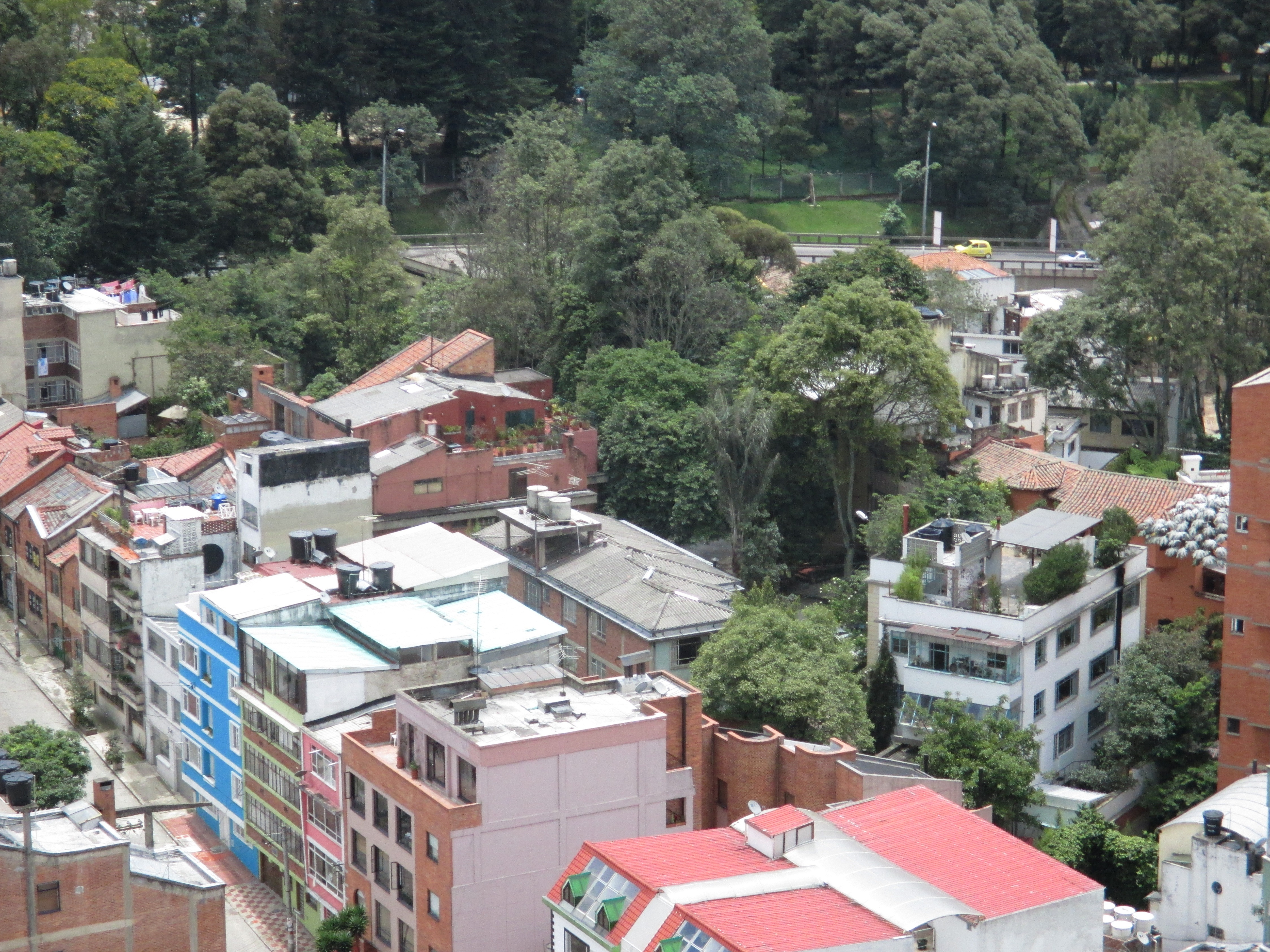 Bogotá